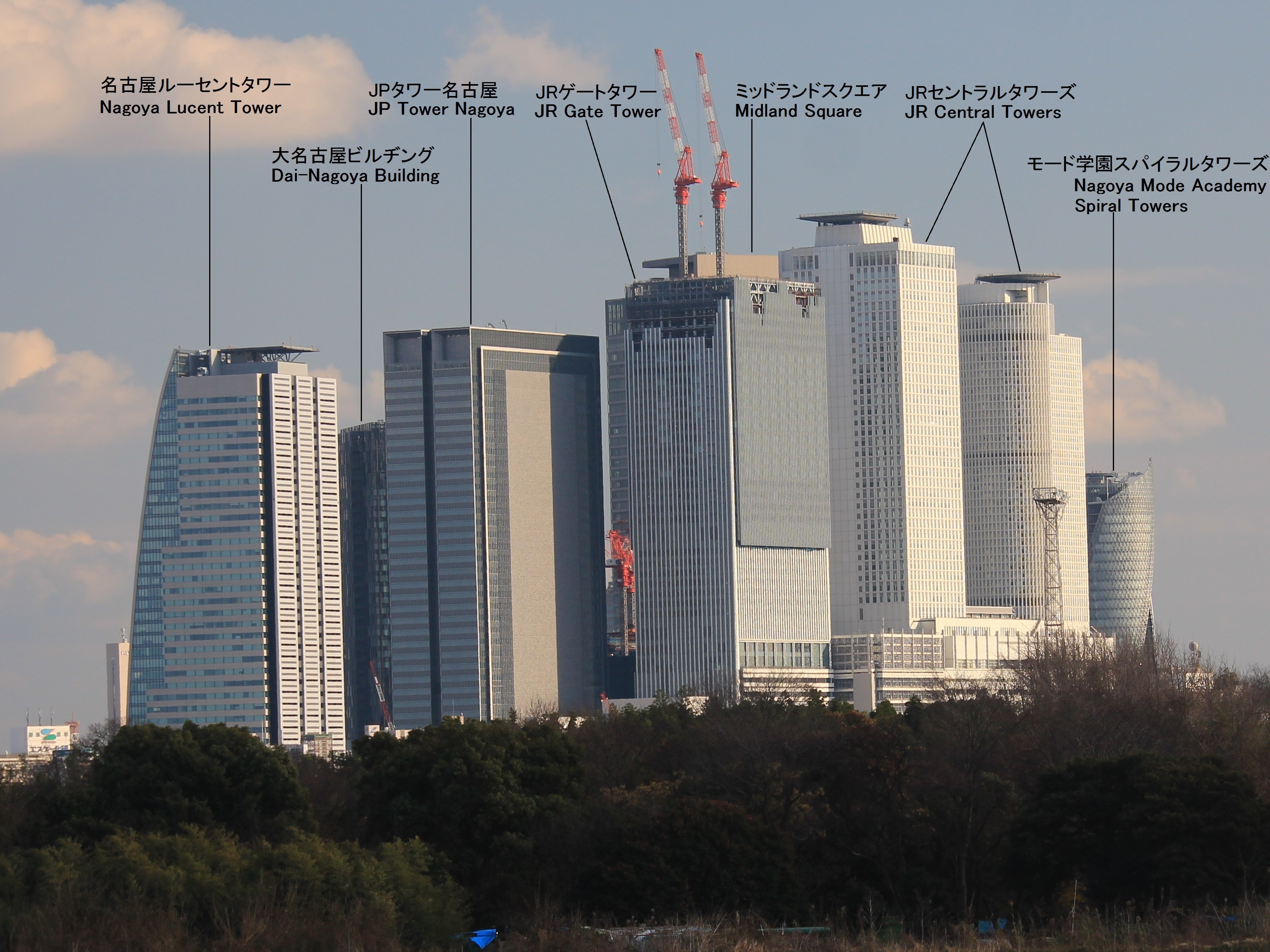 Skyscrapers of Meieki seen from west in Aichi prefecture, Japan.